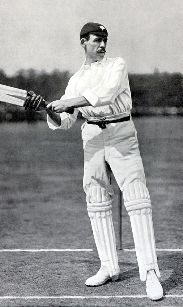 Sport, Cricket, Circa 1900, Edward Wainwright, Yorkshire, (188-1902) and England, (1893-1898)